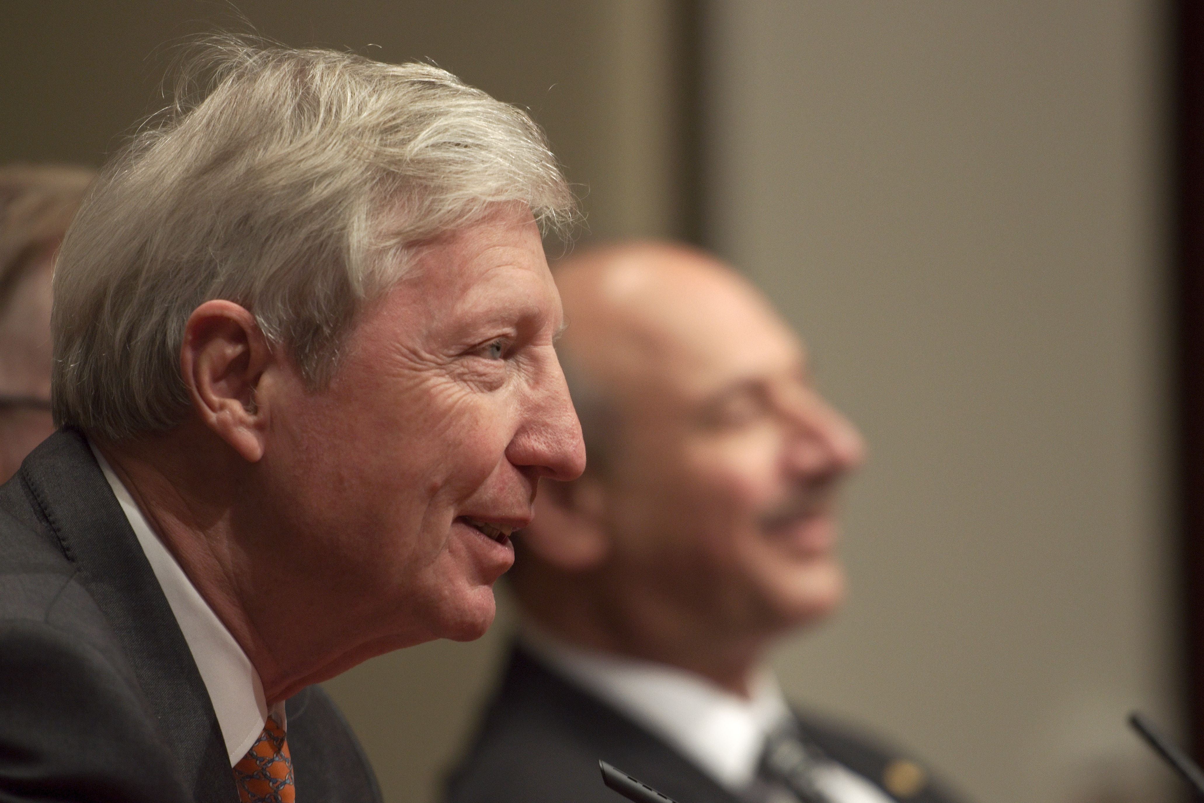 Nobel Prize 2011, press conference with the laureates of the Nobel prize in Physiology or Medicine: Jules Hoffmann and Bruce Beutler.